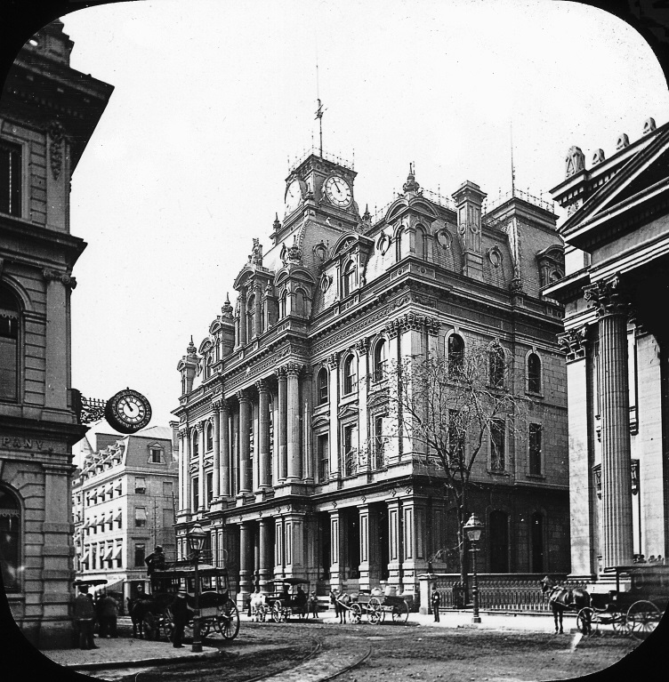 Photograph (glass lantern slide) of the post office, St. James Street, Montreal, Quebec, Canada, about 1895. Silver salts on glass - Gelatin dry plate process